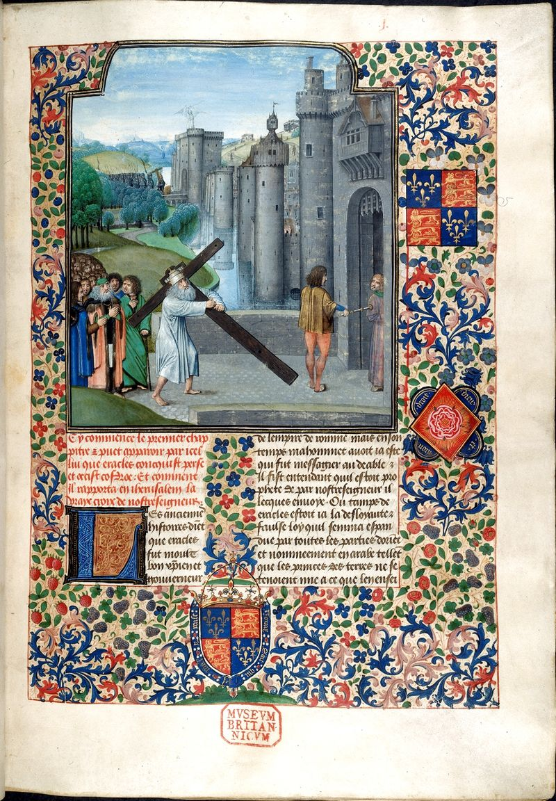 Miniature of emperor Heraclius carrying the True Cross, at a gate of Jerusalem, Livre d'Eracles, Royal 15 E. i, f. 16.